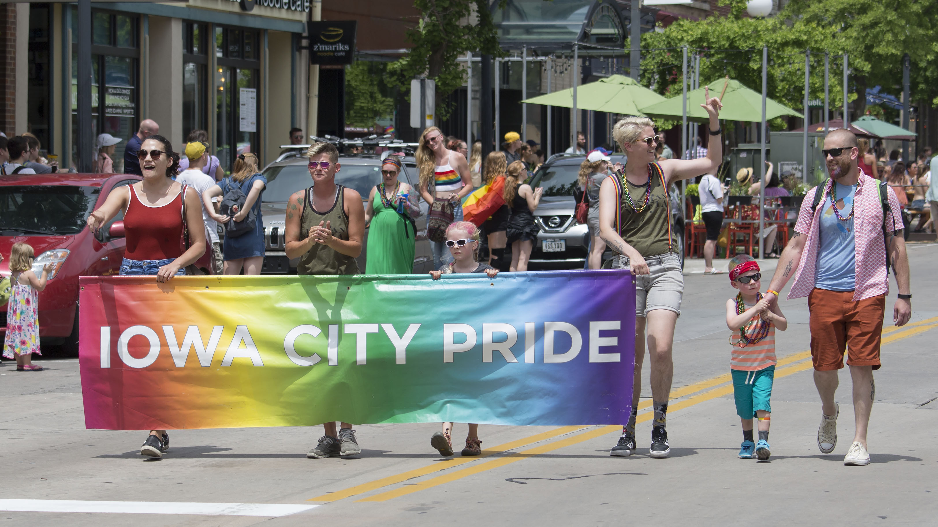 Pride Parade and Celebration Photos